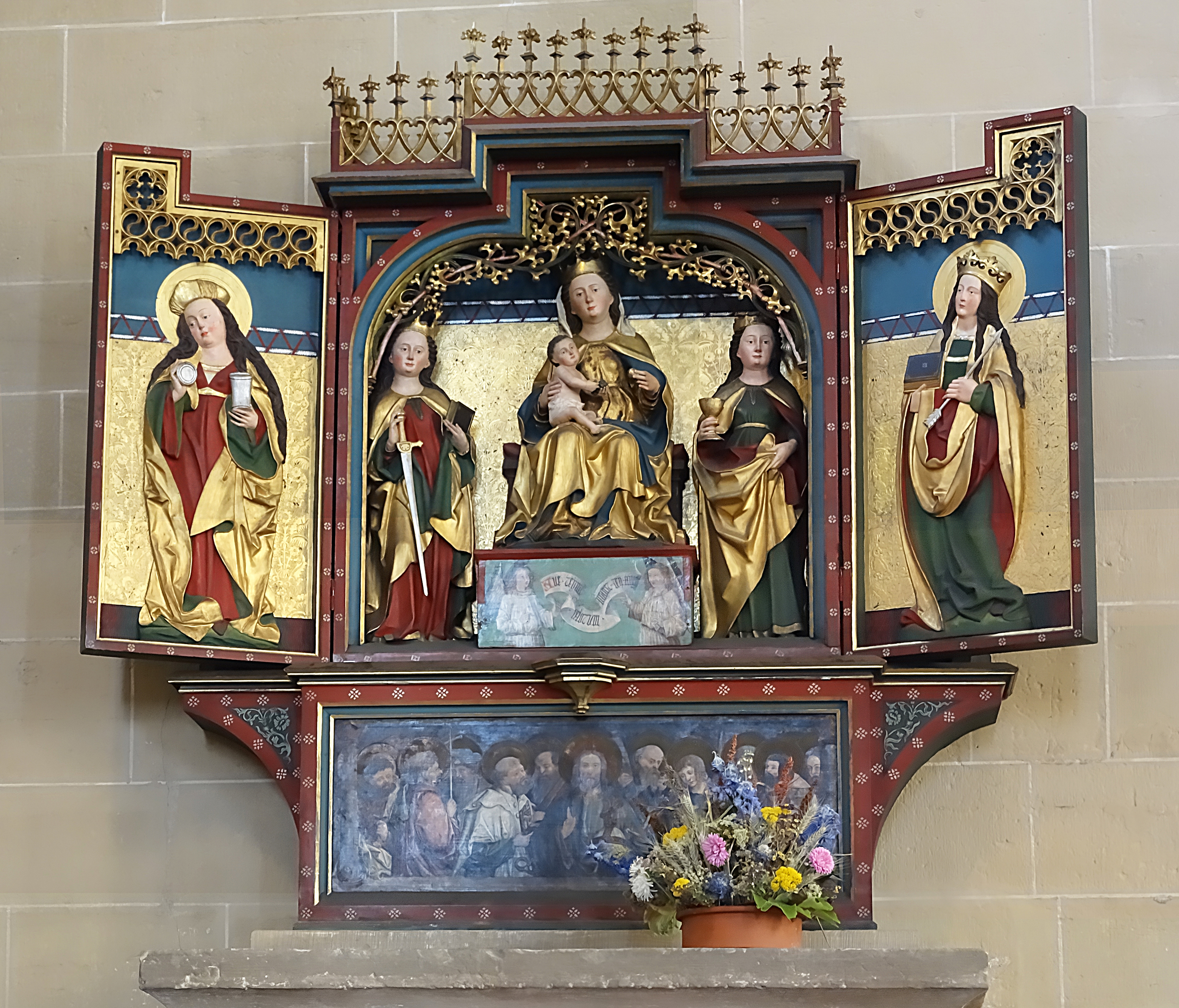 Altar of Madonna and Child (1510), Saint Severus church (Erfurt)